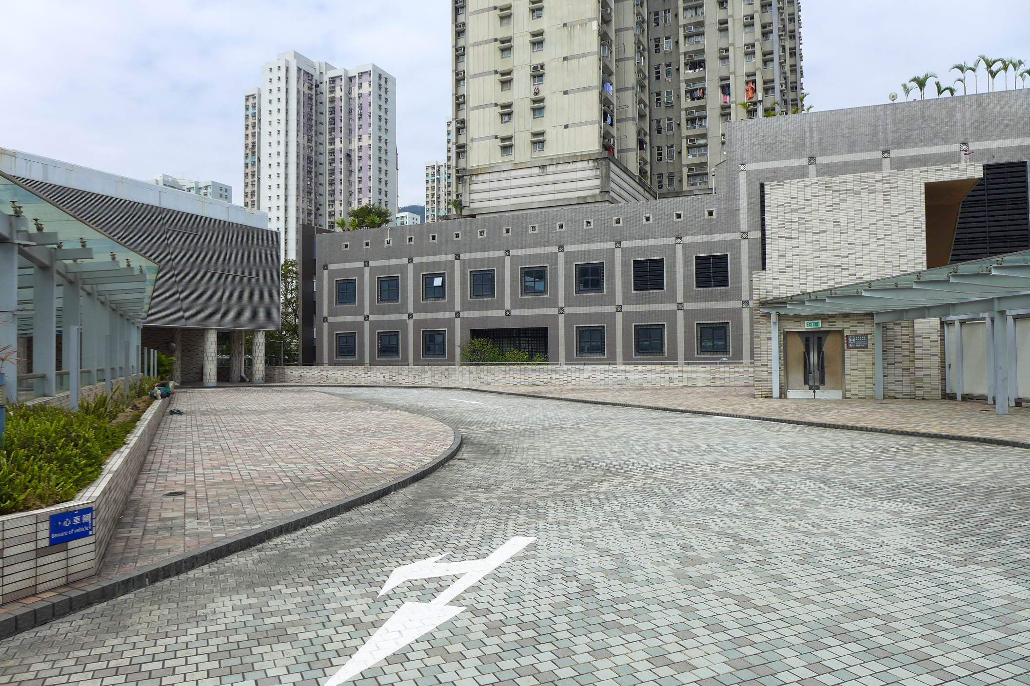 Lok Fu Place Abanded drop off area